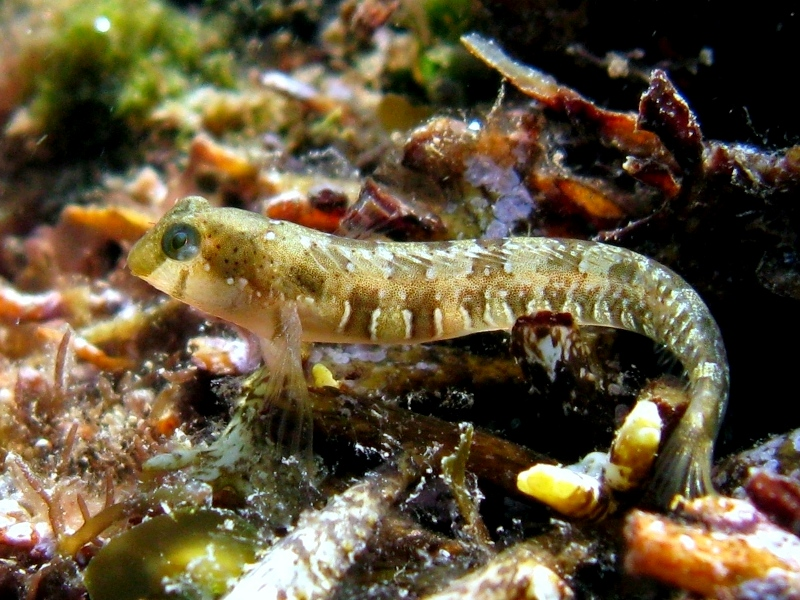 Microlipophrys dalmatinus photographed in Trieste, Italy